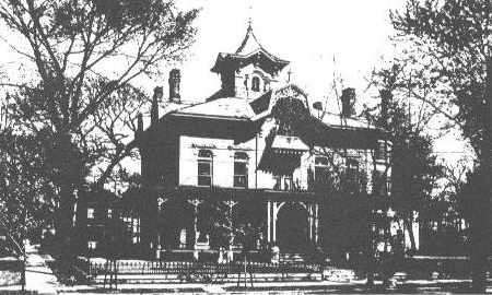 Photo shows what is known as the F.H. Miller House on the National Register of Historic Places. At the time of this photo it was the home of Bishop James Davis of the Catholic Diocese of Davenport. Note the cupola on the top of the house, which no longer exists.